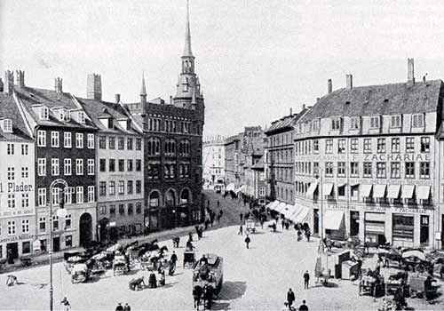 Kultorvet with the beginning of Frederiksborggade in Copenhagen, Denmark